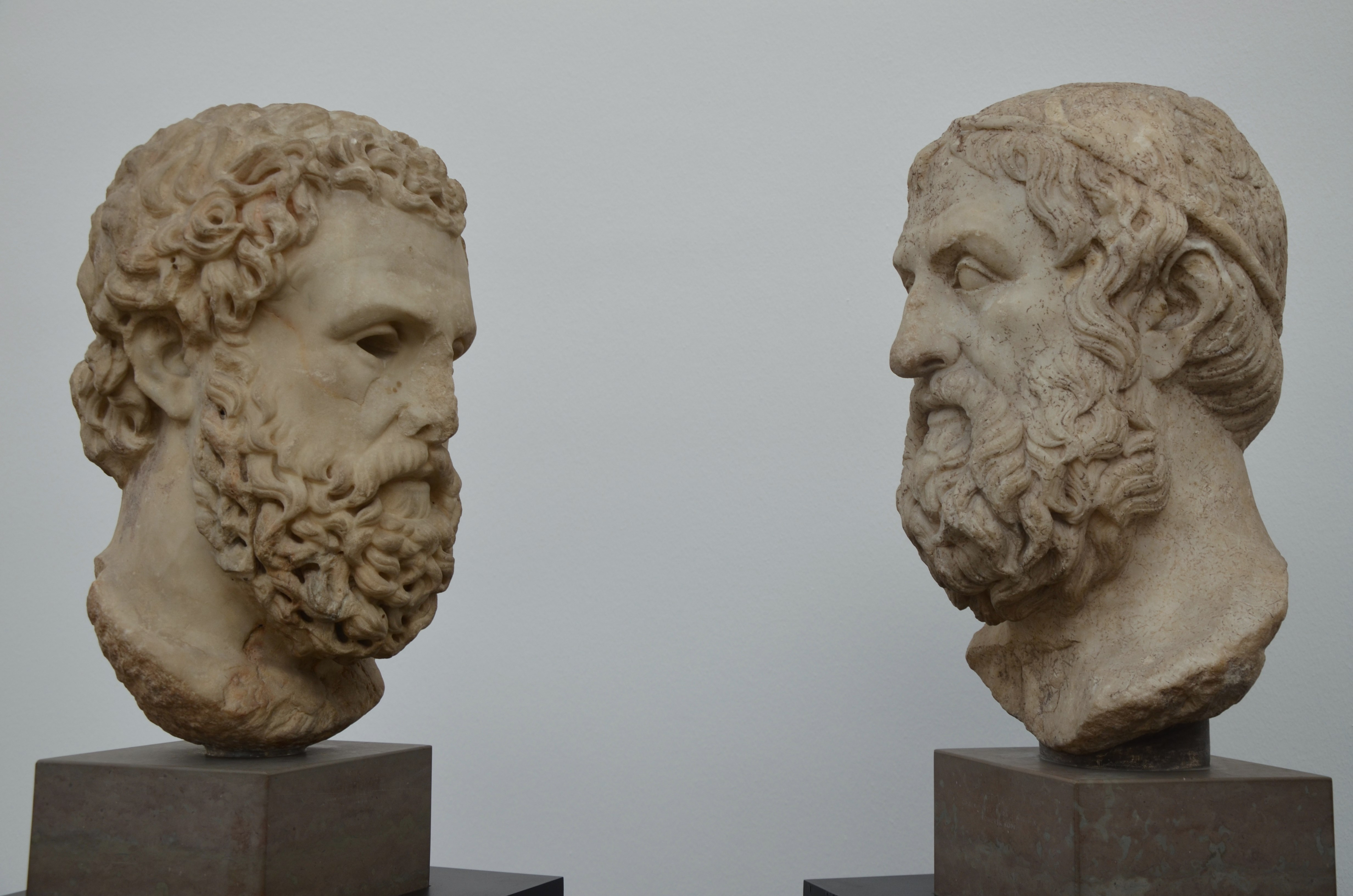 The tragic poets Aeschylus (525-456 BC) and Sophocles (495-406 BC), Ny Carlsberg Glyptotek, Copenhagen